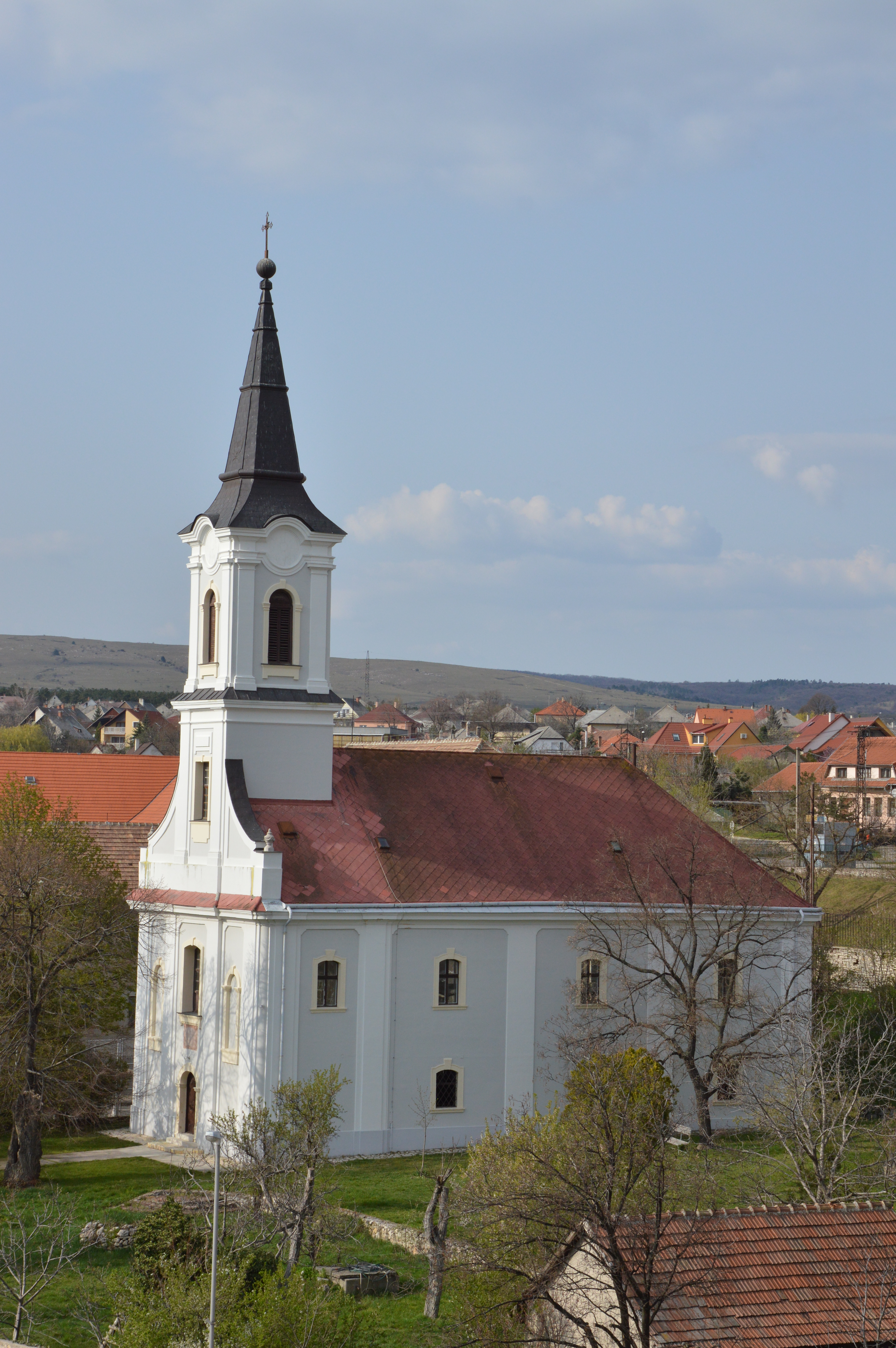 Lutheran Church in Várpalota, Hungary from the wall of Thury Castle